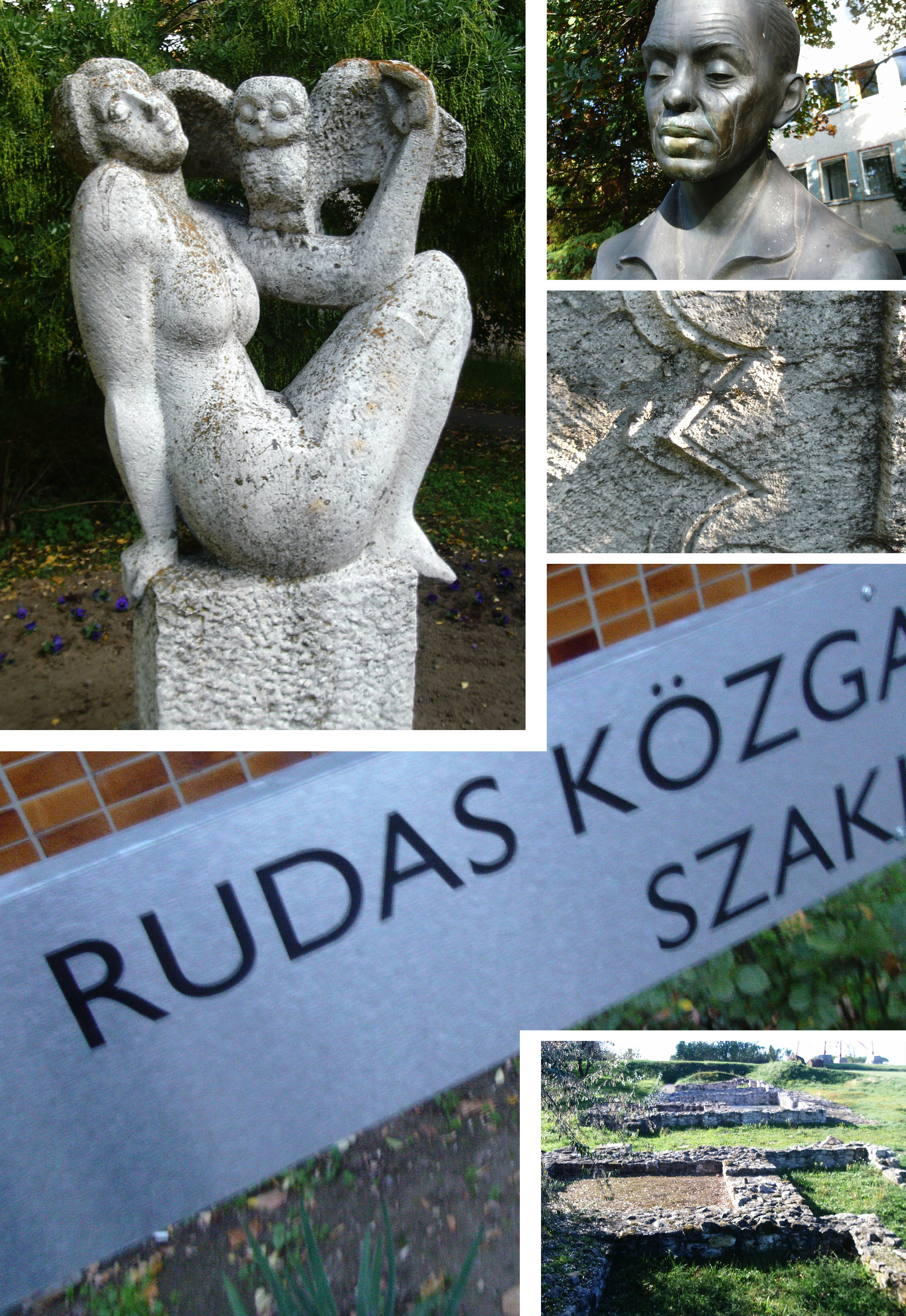 Dunaujvaros, Hungary